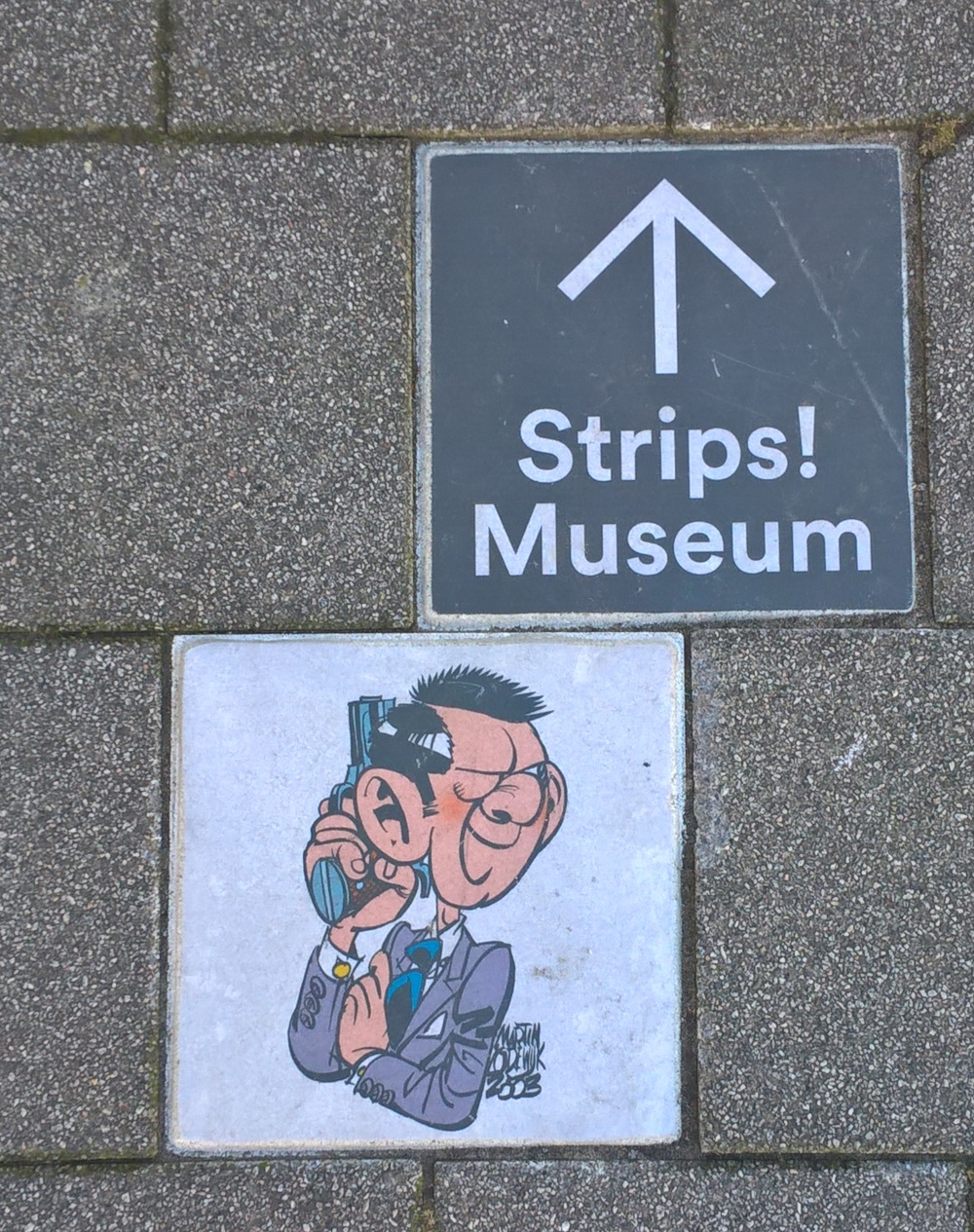 Strips! Museum, Rotterdam, The Netherlands. Sign towards the museum, with Agent 327.